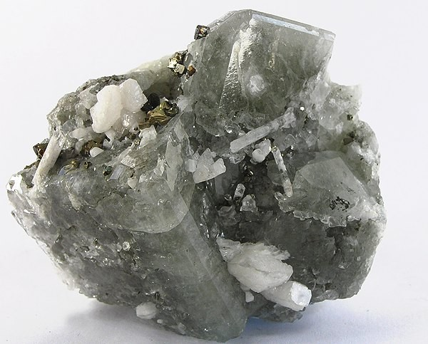 Datolite, Danburite, Chalcopyrite Locality: Charcas, Municipio de Charcas, San Luis Potosí, Mexico (Locality at ) Size: 8.1 x 6.4 x 4.4 cm. From Charcas, a specimen of large, lustrous crystals of datolite, with crystals of white danburite and little golden chalcopyrites. The largest of the crystals measures over 4 cm in two directions! They have a light greenish-gray color; the faces SHINE. Ex. Dave Stoudt Collection.